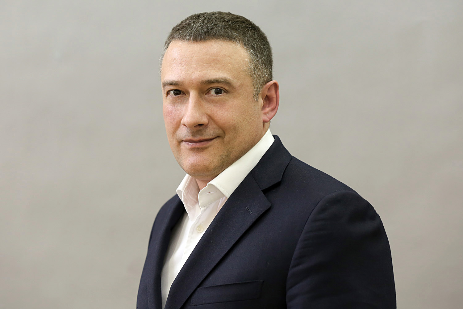 Igor Ilyich Kozlov, CEO of Ruselectronics since 2016.